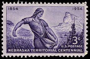 Nebraska Territory was commemorated on its 100th anniversary with a 3-cent stamp issued on May 7, 1954. The stamp is illustrated by "The Sower," a statue atop the Nebraska Capitol. Mitchell Pass is shown with Scotts Bluff dominating the right side.